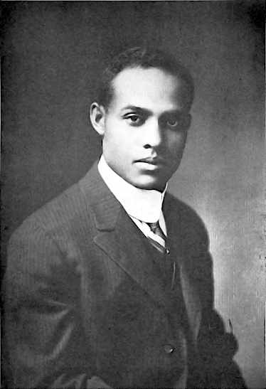 John Warren Davis (11 February 1888 – 12 July 1980) was an African American educator, college administrator, and civil rights leader. Davis was the fifth and longest-serving president of West Virginia State College in Institute, West Virginia, from 1919 to 1953.